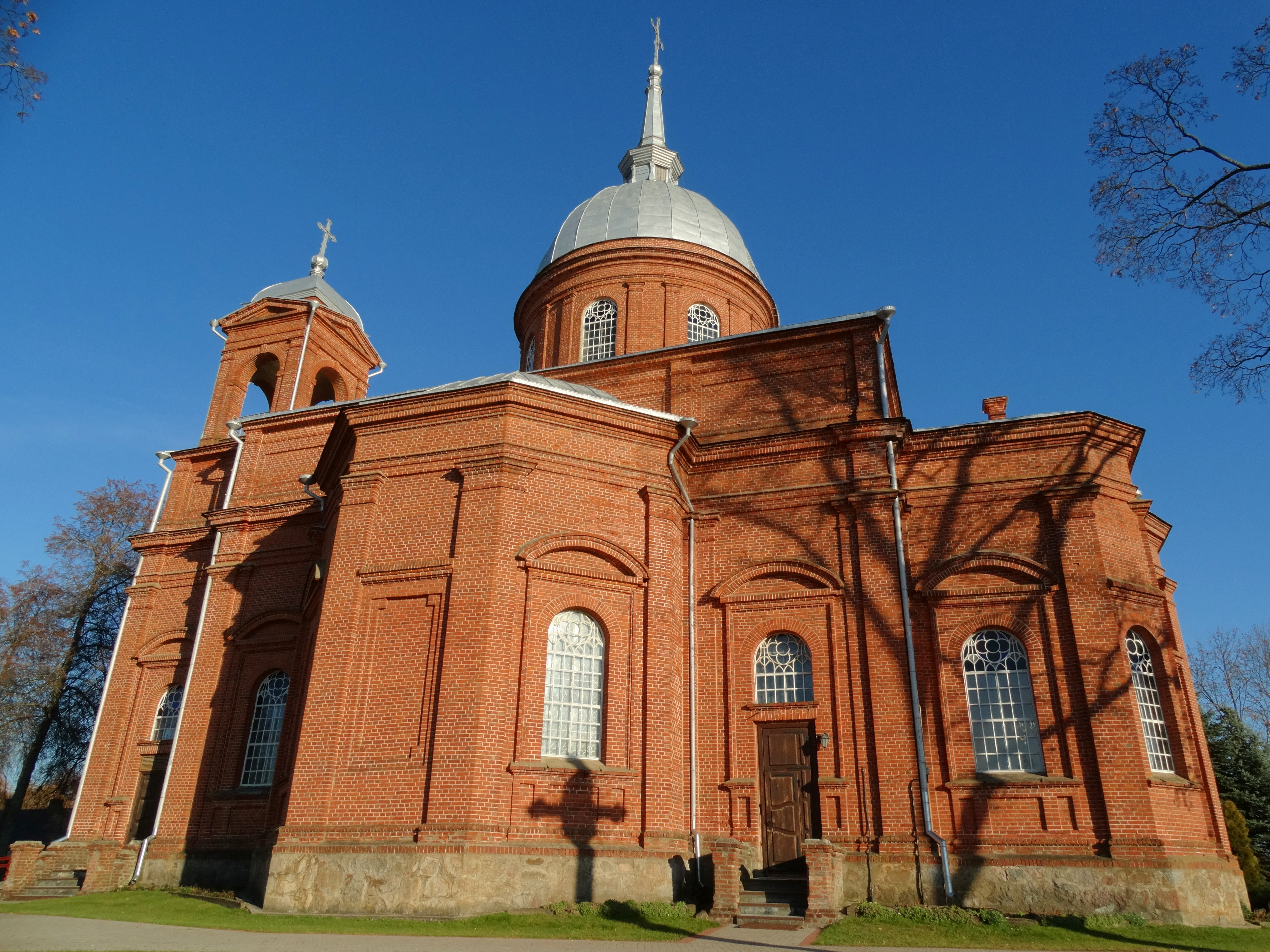 Church of the Ascension of Christ, Utena, Lithuania